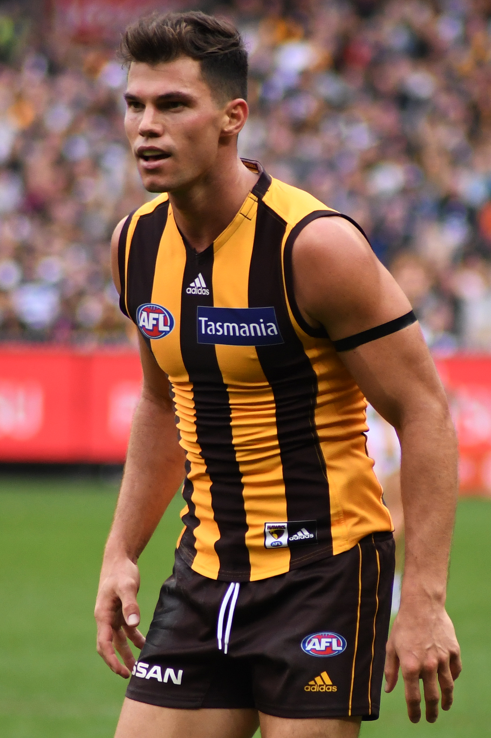 Jaeger O'Meara of Hawthorn during the 2019 AFL round 5 match between Hawthorn and Geelong at the Melbourne Cricket Ground on Monday, 22 April 2019 in Melbourne, Victoria.